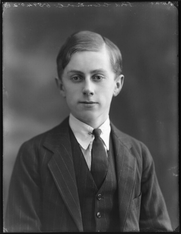 William Cecil James Philip John Paul Howard Clonmore, 8th Earl of Wicklow by Bassano Ltd whole-plate glass negative, 6 April 1920 Given by Bassano & Vandyk Studios, 1974 Photographs Collection NPG x120424